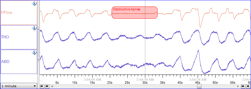 Screenshot of a PSG system showing an obstructive apnea. Flow signal goes flat while effort signals continue for a period of time, indicating an obstructive apnea.